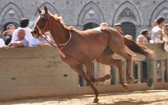 A horse running without its jockey